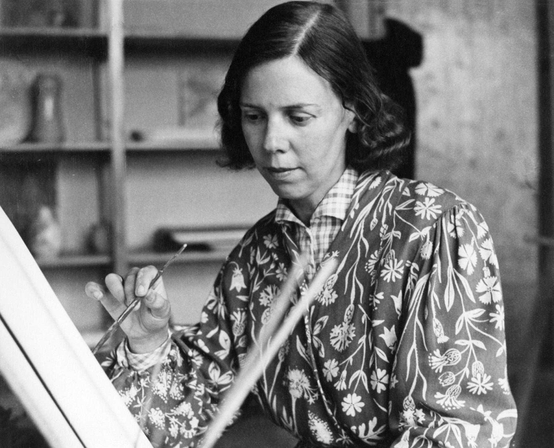 Photograph of the Finnish ceramist Rut Bryk (1916–1999). (Dated to 1950s by Tapio Wirkkala Rut Bryk Säätiö.)